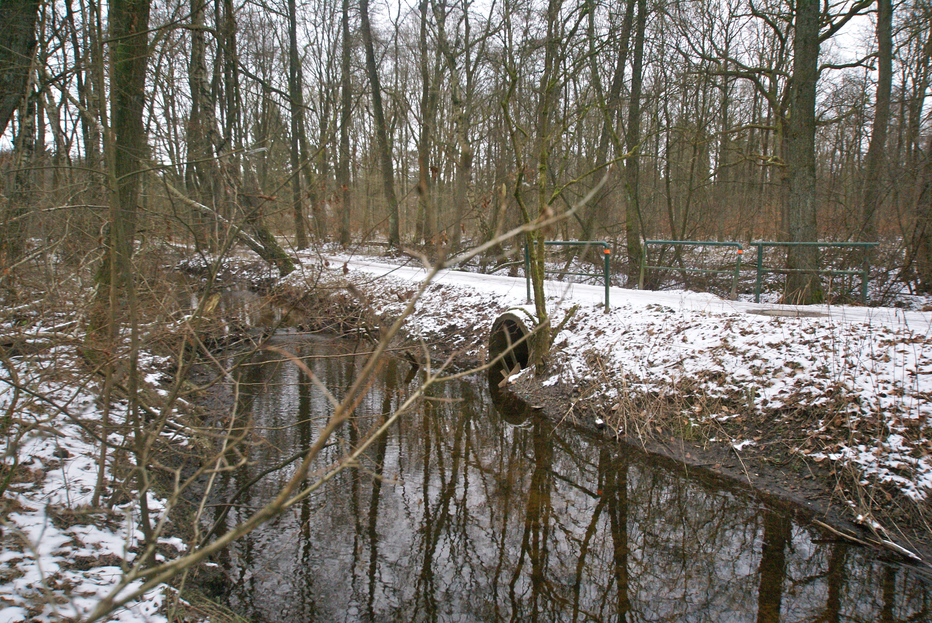 Ammersbek (Lottbek), Germany: The confluence of the Moorbek and the Deepenreiengraben